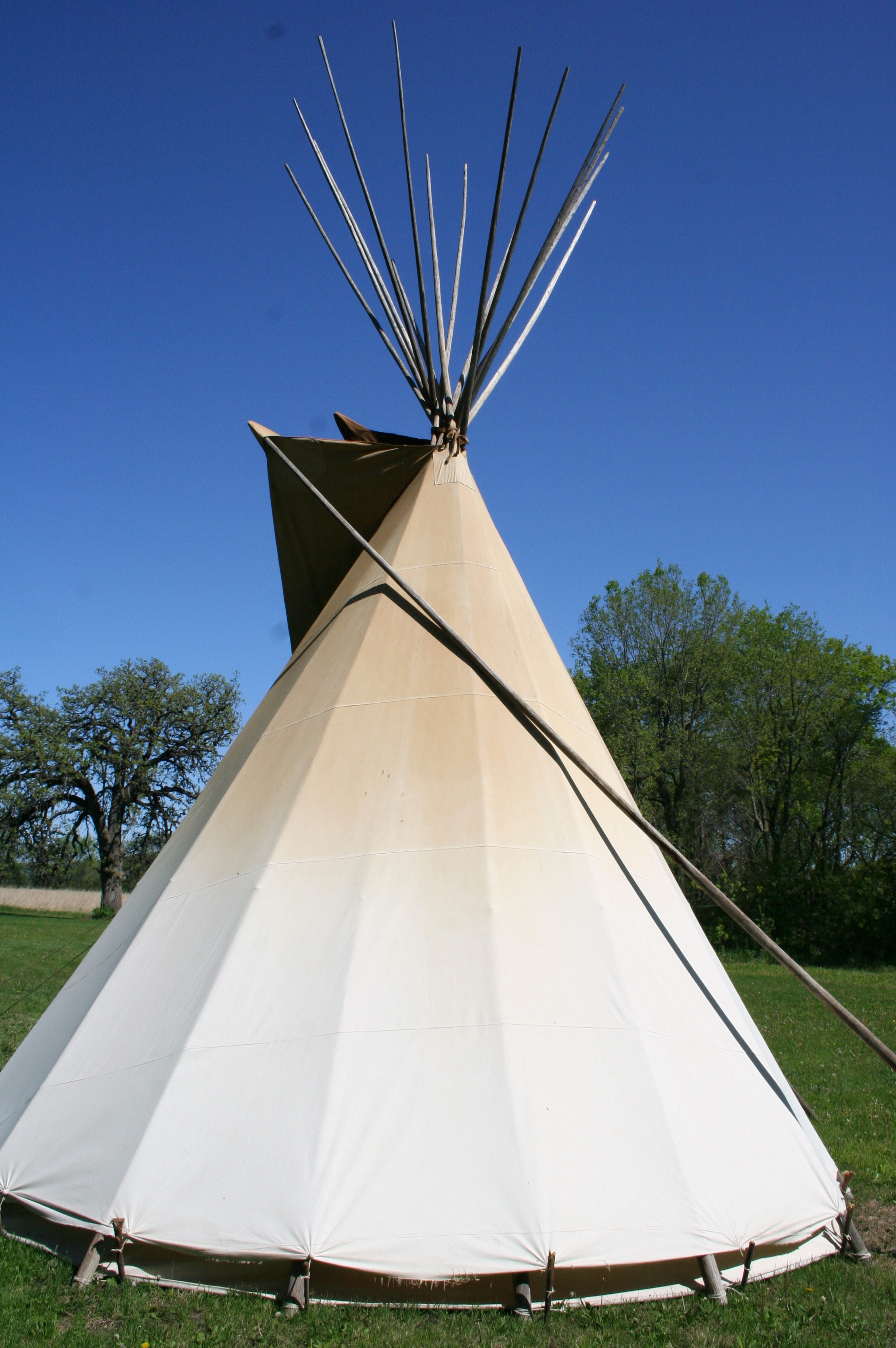 Tipi at a living history rendezvous at Peterson Point Historic Farmstead in Emmet County, Iowa.